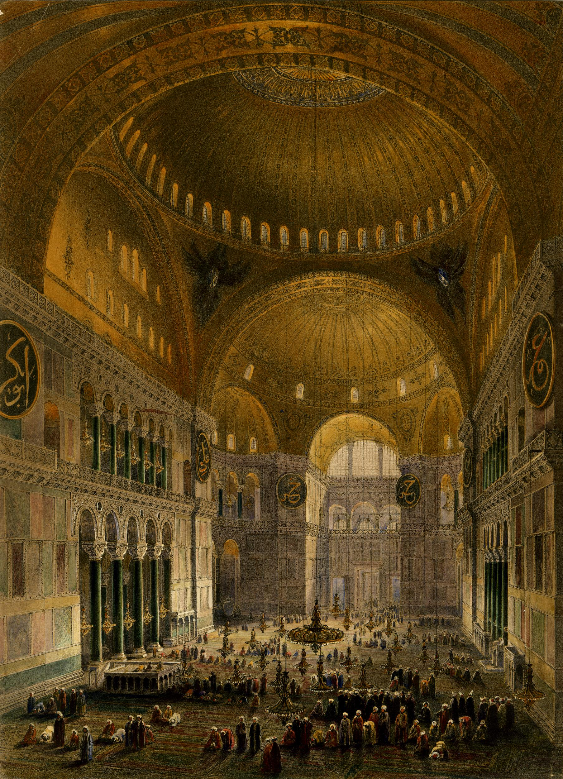 Interior view of the Hagia Sophia mosque in Istanbul from the balcony, with two domes above, crowd of worshippers on the carpet below, and entrance in background; after Fossati. Tinted lithograph with hand-colouring